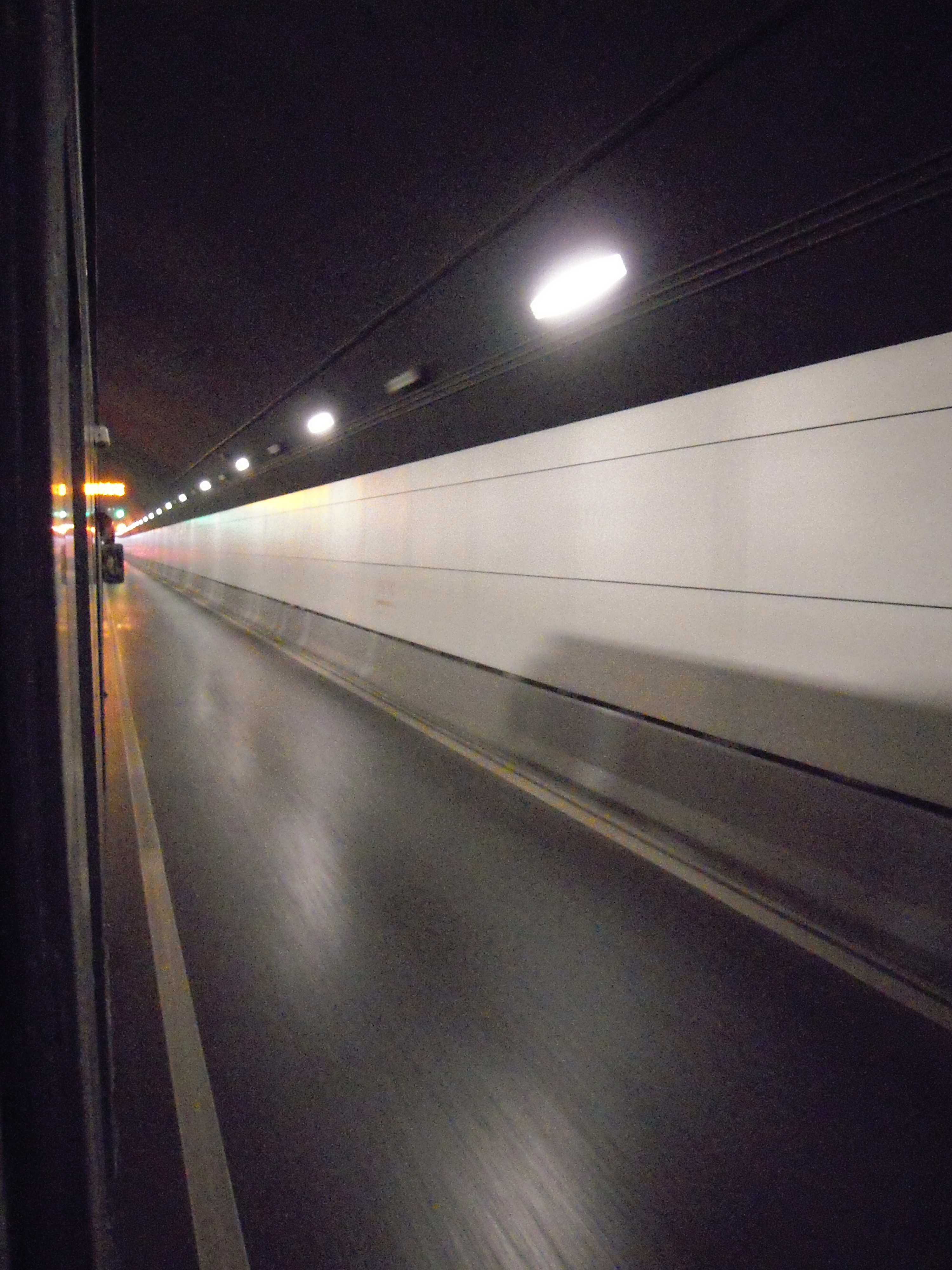 Nanjing Yangtze River Tunnel